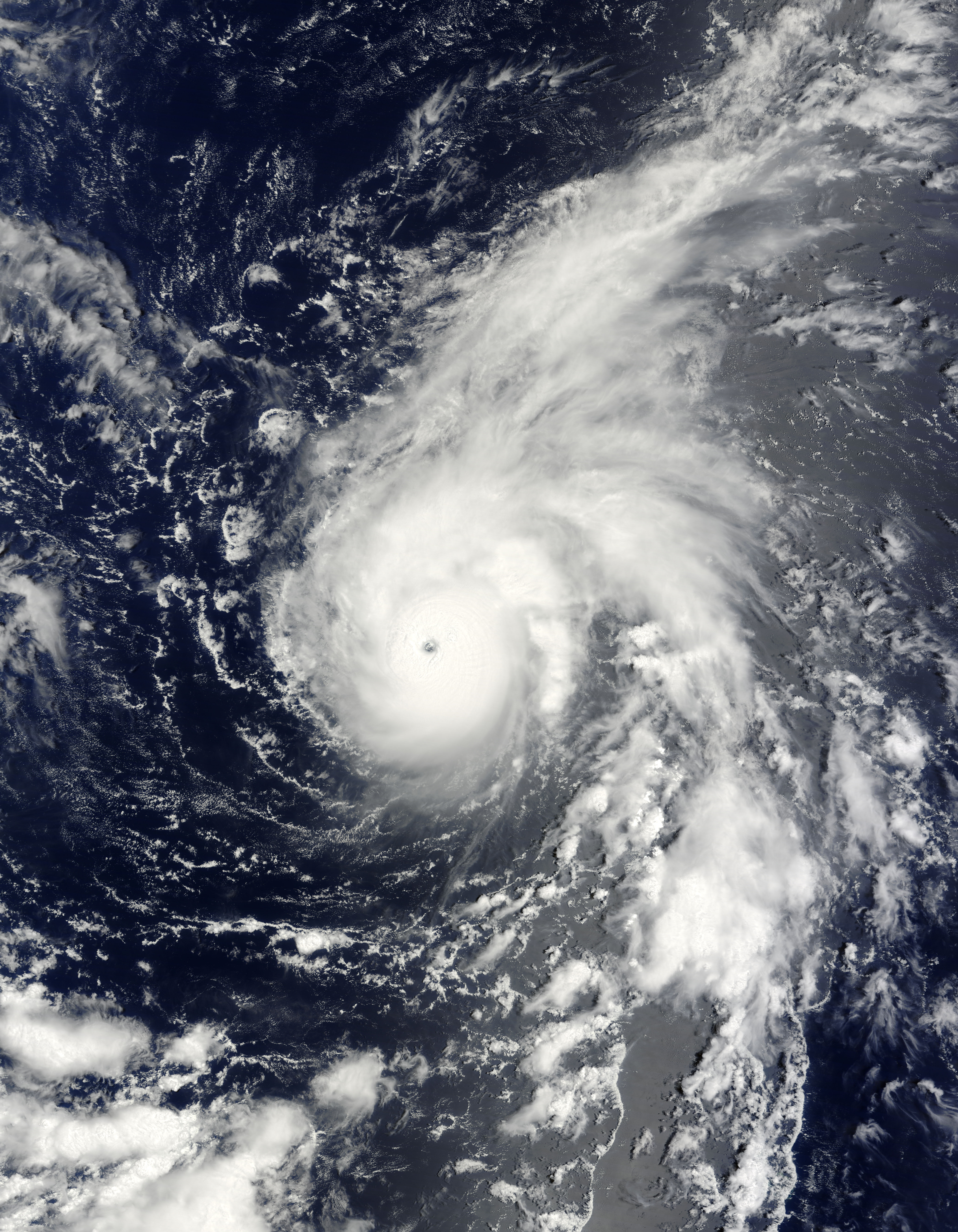 Well away from land, Typhoon Vamco moved north over the Pacific Ocean on August 20, 2009, gradually building steam. When the Moderate Resolution Imaging Spectroradiometer (MODIS) on NASA’s Terra satellite captured this image at 00:05 UTC, the storm had sustained winds of 195 kilometers per hour (120 miles per hour or 105 knots), according to the Joint Typhoon Warning Center. Forecasters expected the typhoon to continue to strengthen into a Category 4 Super Typhoon by August 21.